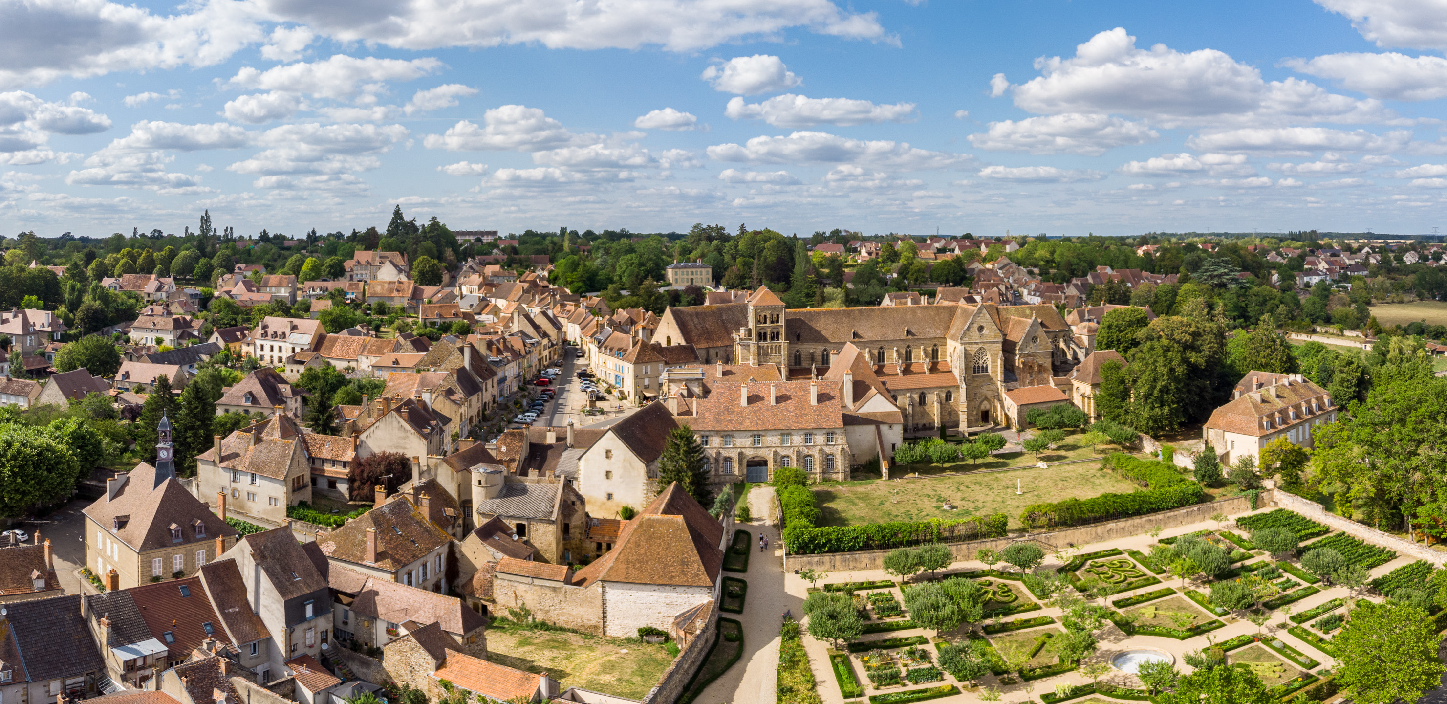 This is a panoramic view of Souvigny, including its medieval priory, the garden and the main square, from the sky.